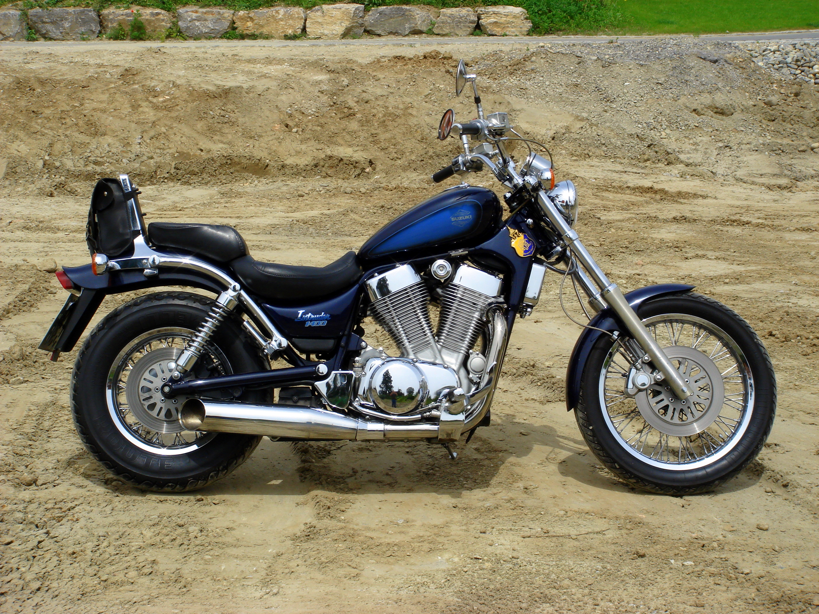 Suzuki VS1400 Intruder Motorbike